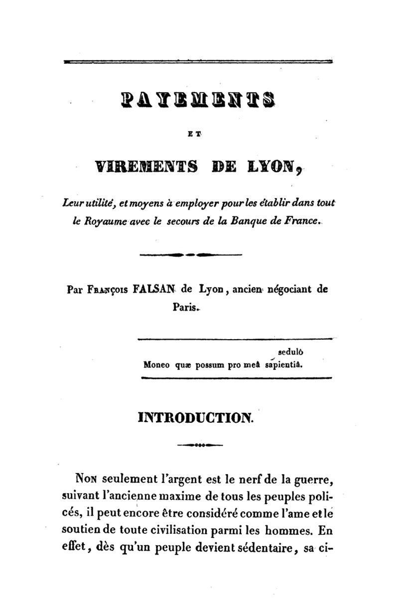 Beginning of a book from François Falsan: "Payements et virements de Lyon, ou moyens d'éteindre avec facilité et le moins d'argent possible toutes les dettes commerciales"; printed in Paris, edited by Delaunay, 1831.